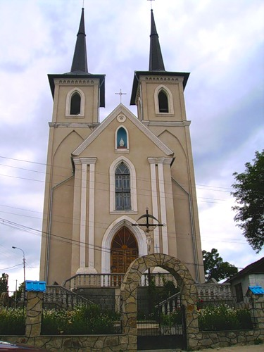 Kostel in Novaya Ushitsa